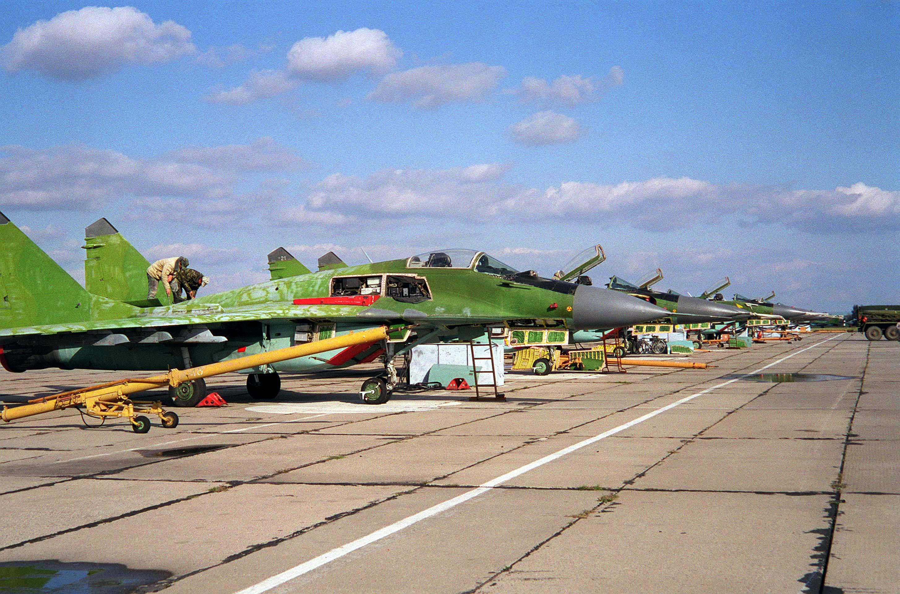 A Moldovan MiG-29S is readied for air shipment from Moldova to the United States on Oct. 17, 1997. The Department of Defense of the United States of America and the Ministry of Defense of the Republic of Moldova recently reached an agreement to implement the Cooperative Threat Reduction accord signed on June 23, 1997, in Moldova. This agreement authorized the United States Government to purchase nuclear-capable MiG-29 fighter planes from the Government of Moldova. This is a joint effort by both governments to ensure that these dual-use military weapons do not fall in to the hands of rogue states.